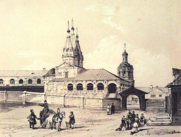 Ivanovsky (John the Precursor) monastery in Kazan in 1837. Drawing by Edward Turnerelli.